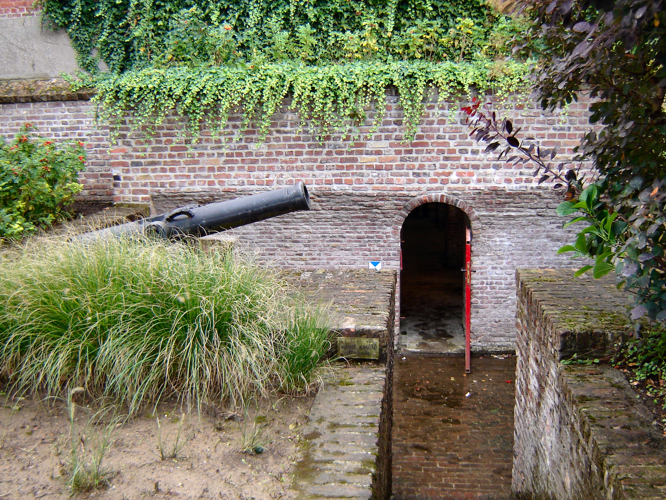 Casemates in Menen. Menen, West Flanders, Belgium